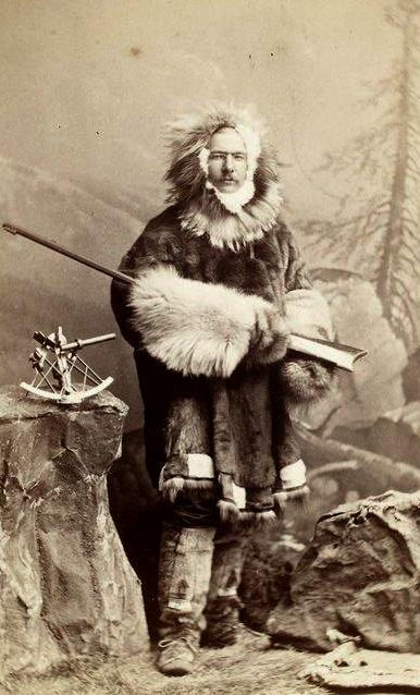 Frederick Schwatka in polar apparel